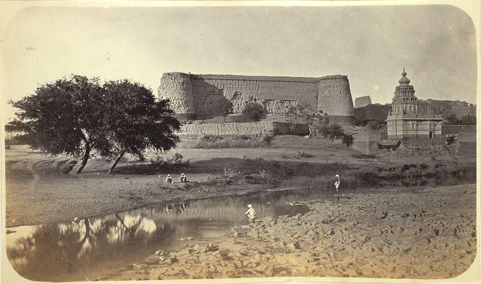 Narnala Fort,Berar, Maharashtra, India 1860